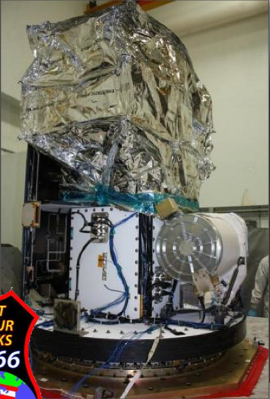 NROL-66 (Rapid Pathfinder), a small NRO satellite, which carries advanced dosimeters to characterize the space environment from a 1,200 kilometer orbit